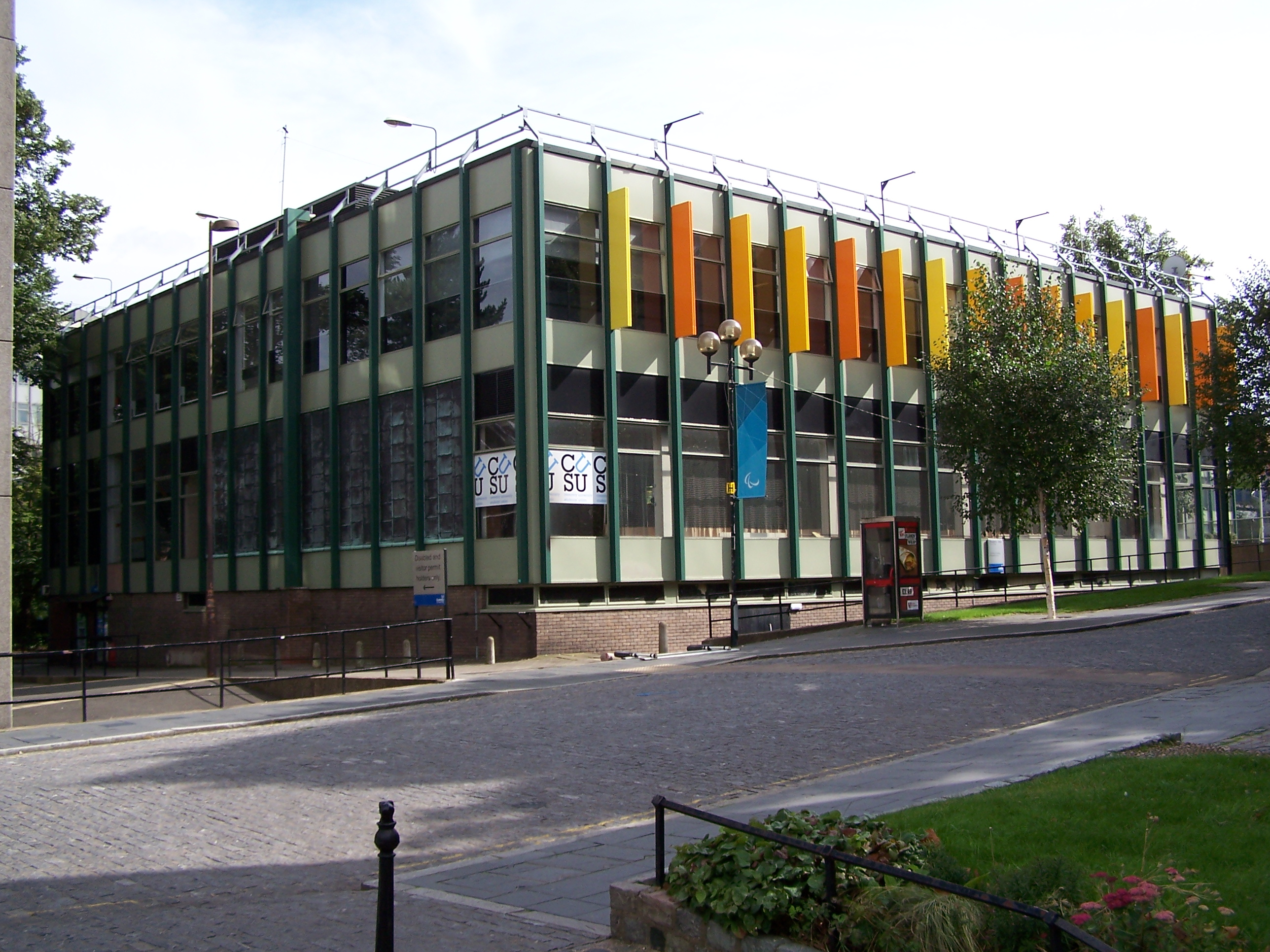 Coventry University